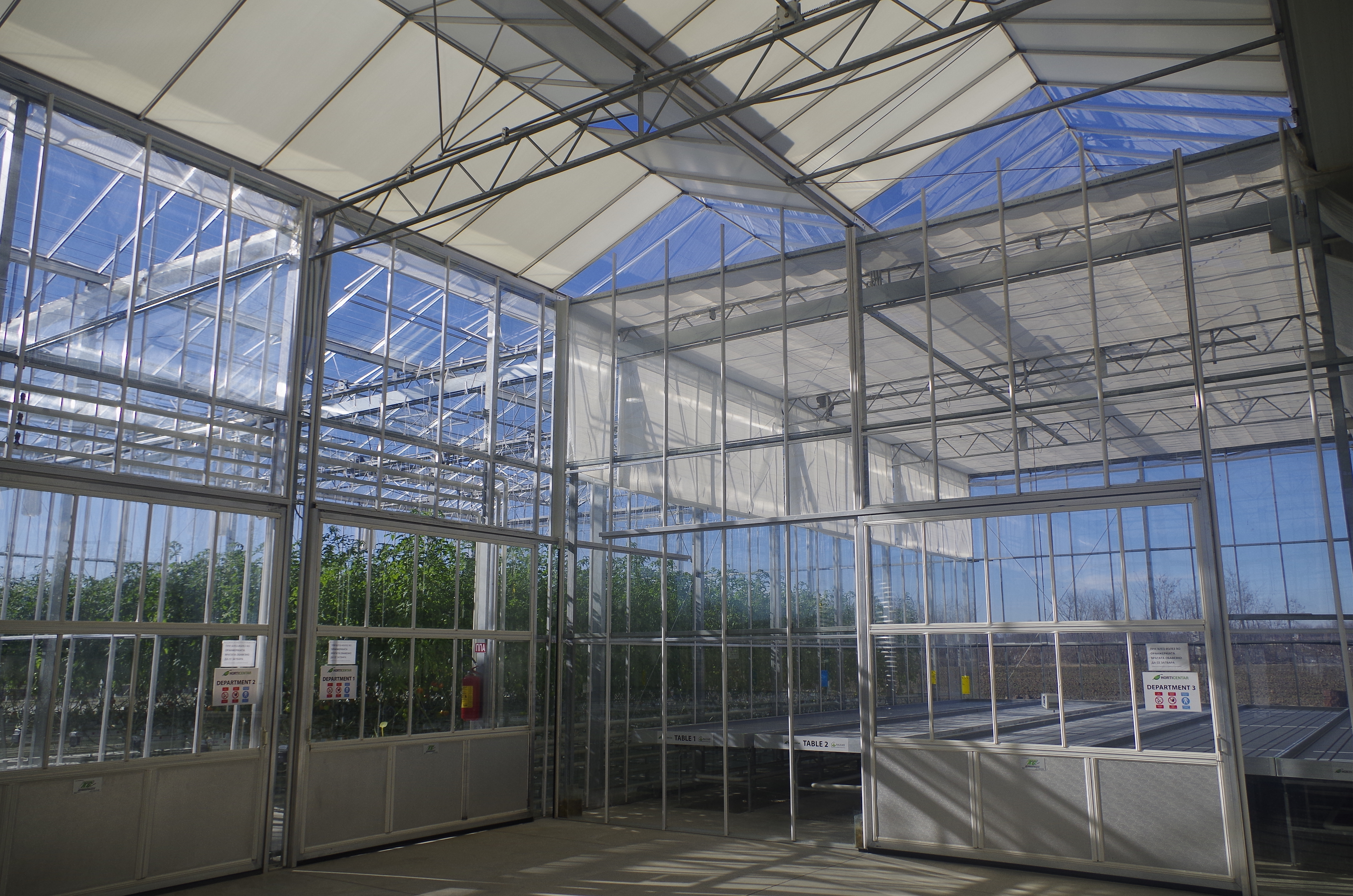 Balkan Green house facility in Ovce Pole, Macedonia